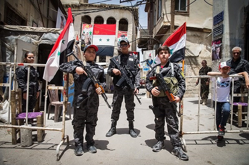 Symbolic boy soldiers defending Damascus against terrorist attacks during syrian presidential election, 2014.